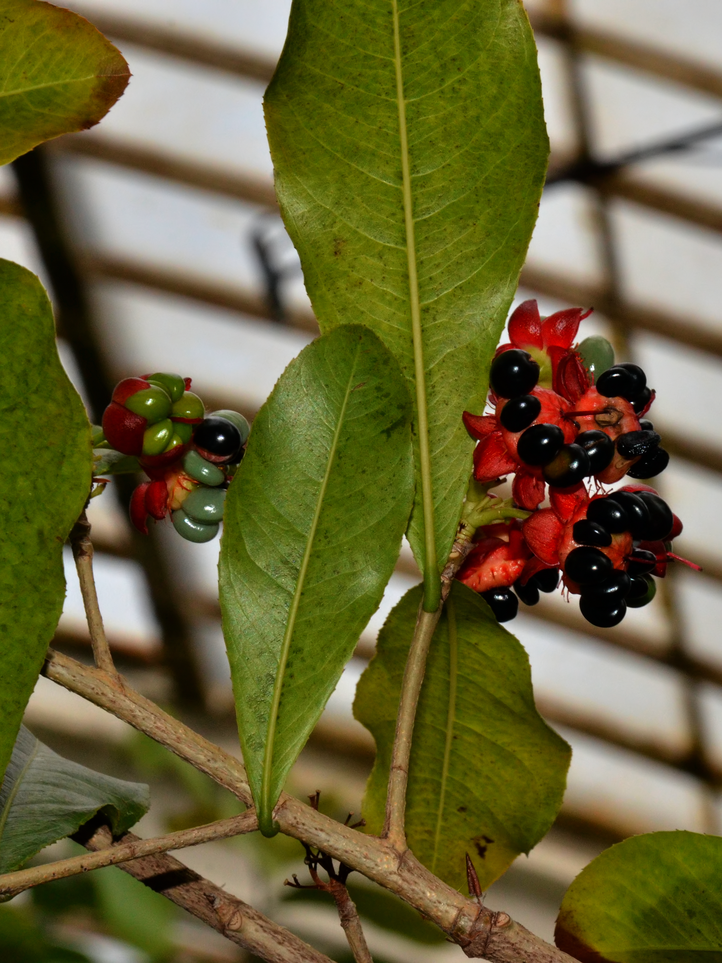 African bird's-eye bush at Kew Gardens, London, UK.